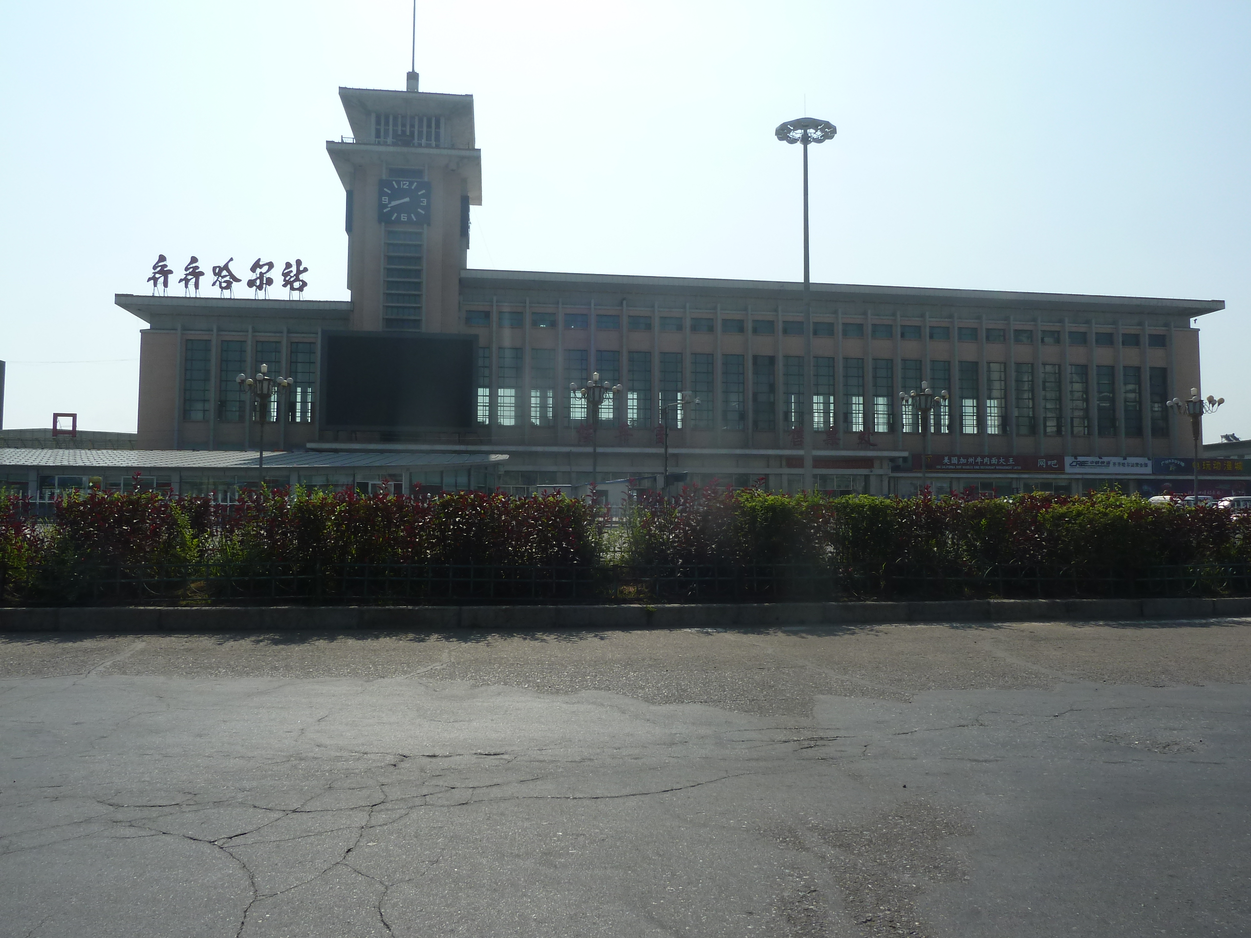 Qiqihar Rail-station